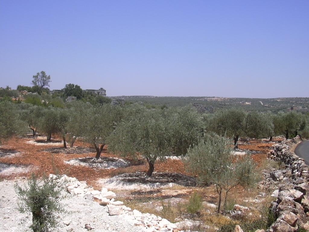 Typical view of an olive orchard in the valleys surrounding Idlib in Idlib Governorate, northwestern Syria.